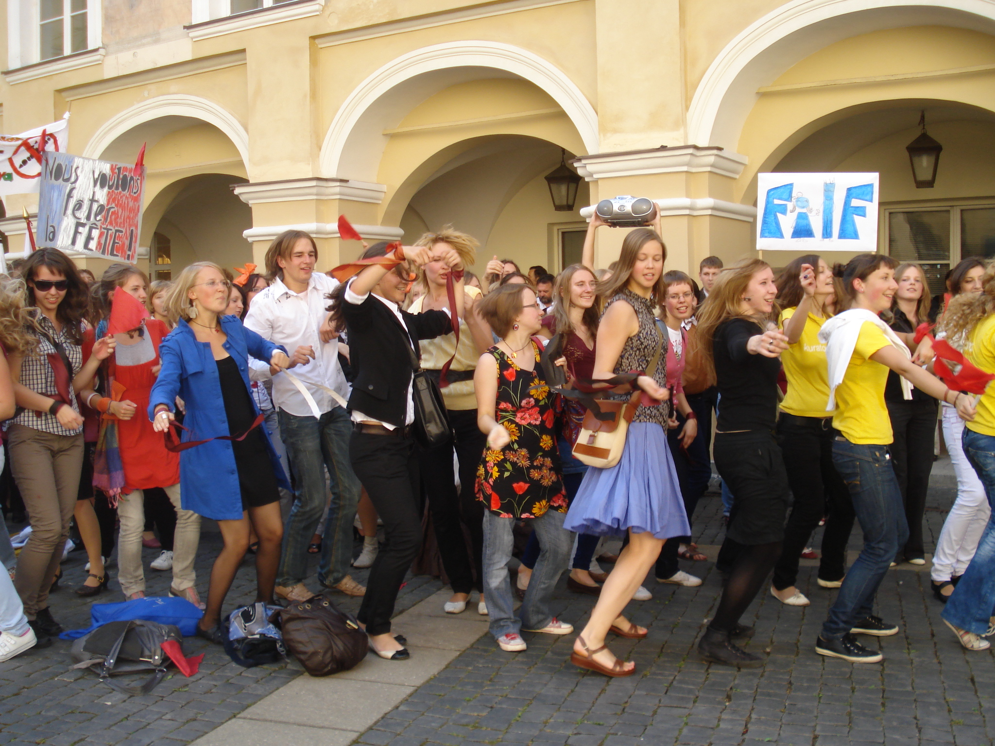 The students of the Faculty of philology dancing in the Great Courtyard of the Vilnius University. 2009.09.01